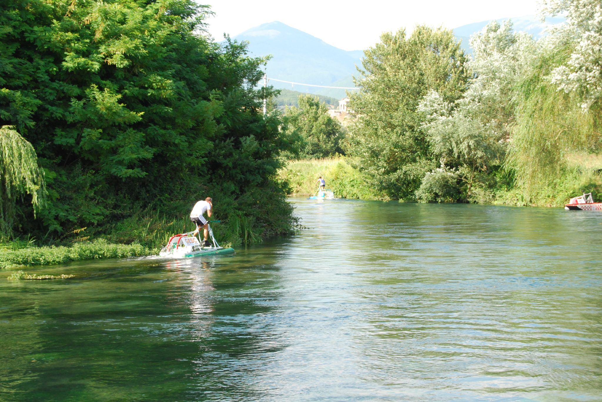 The traditional Palio della Tinozza competition in Rieti, Lazio, Italy. 2008 edition.